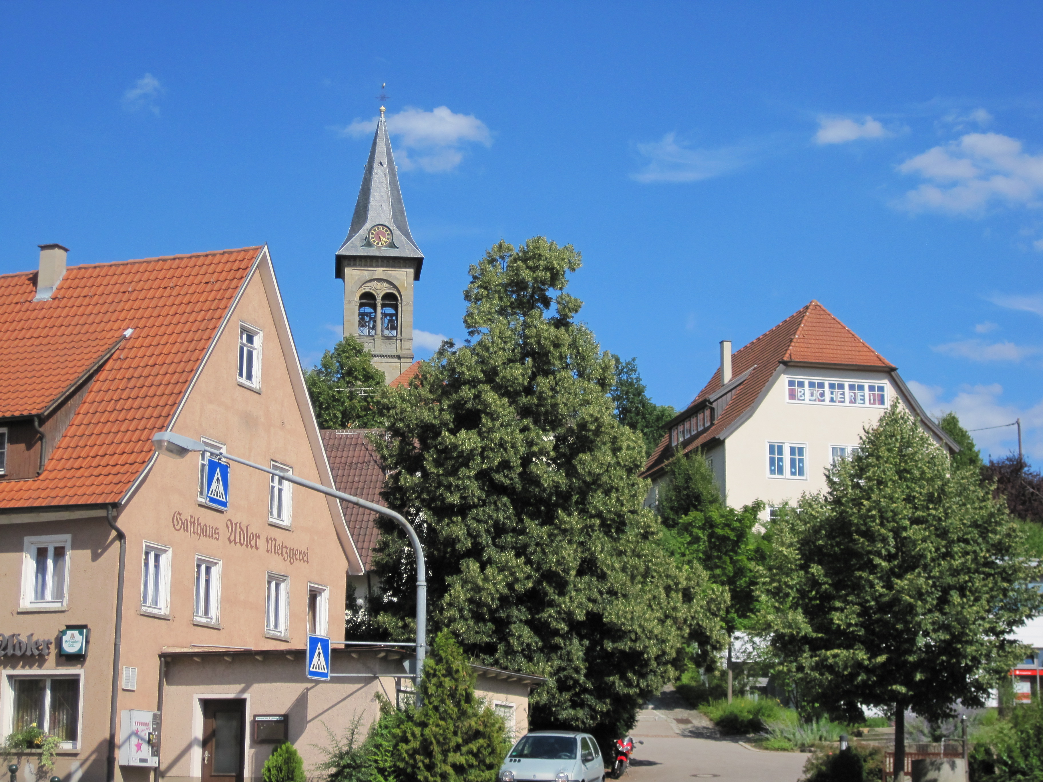 Buildings in Bempflingen, Germany